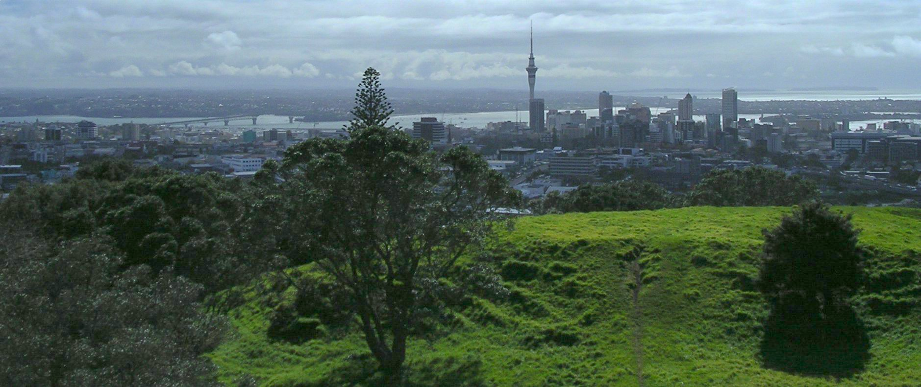 I created this image and I release this image into the public domain. Remember 05:33, 14 August 2006 (UTC)